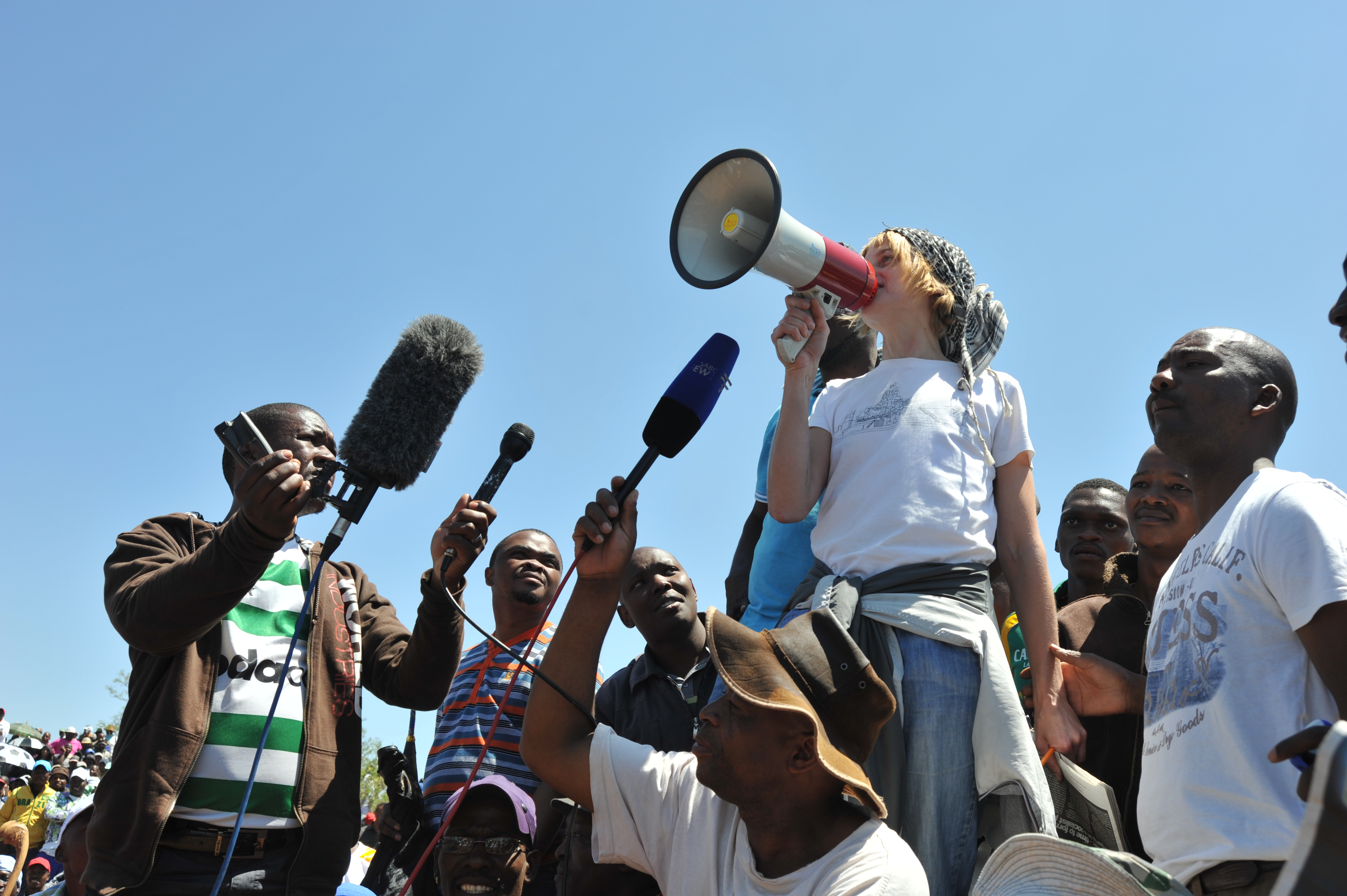 Liv Shange addresses striking mineworkers in Carletonville during 2012 national strikes - Mponeng KDC West mine